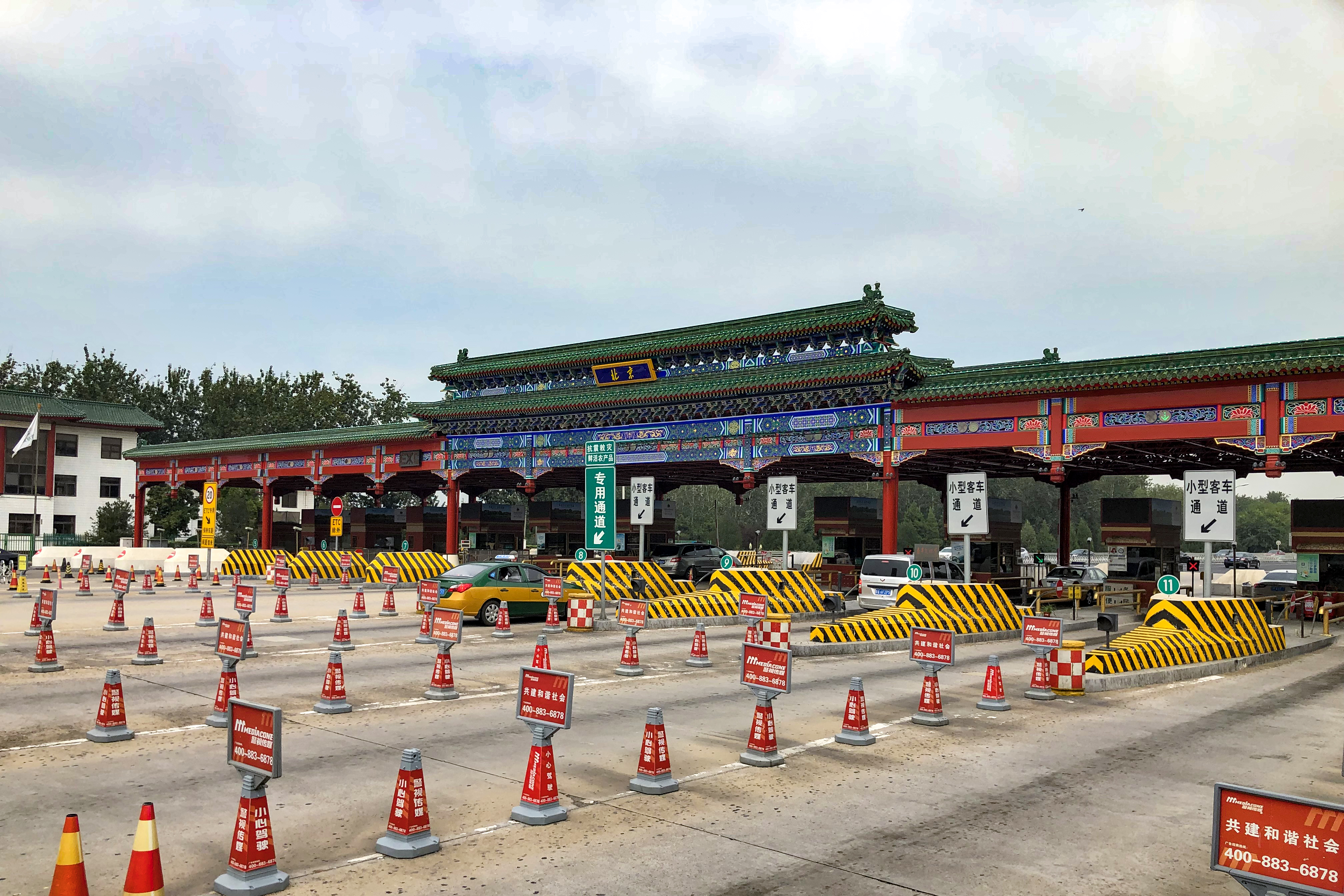 Mainly to T1 and T2.